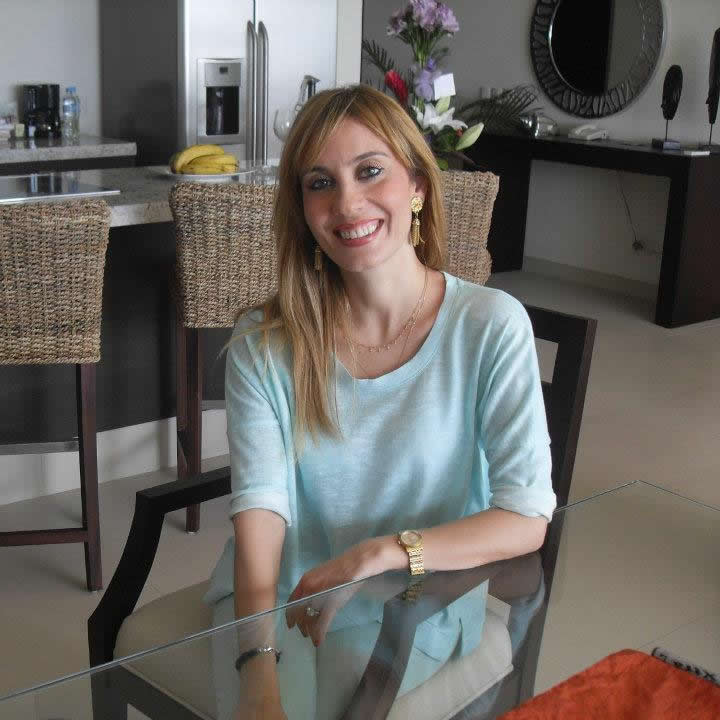 Filippa Giordano in Vallarta, Mexico